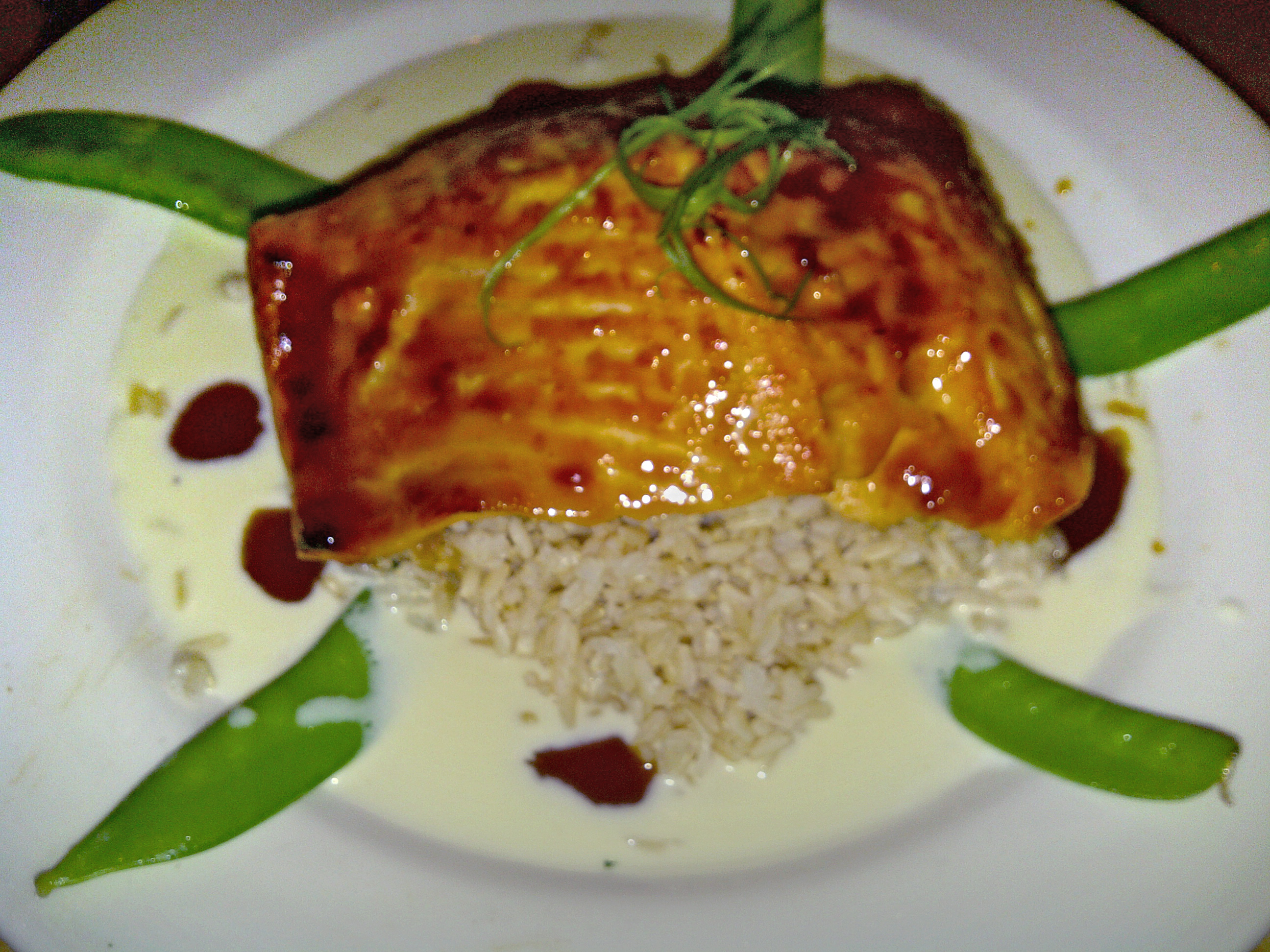 Miso Salmon - Cheesecake Factory Seattle - Taken by Calvin Marquess